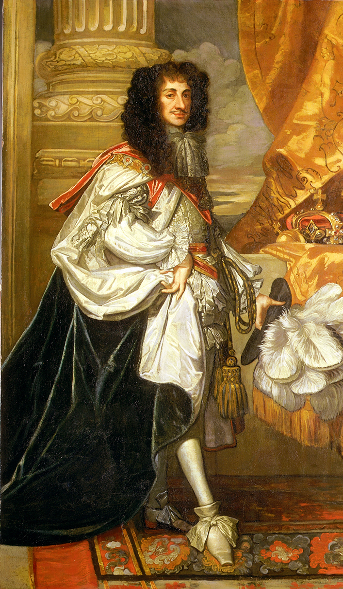 Portrait of Charles II of England (1630-1685)